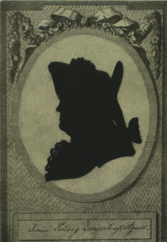 Silhouette portrait of J. L. Zinn (1734-1802)